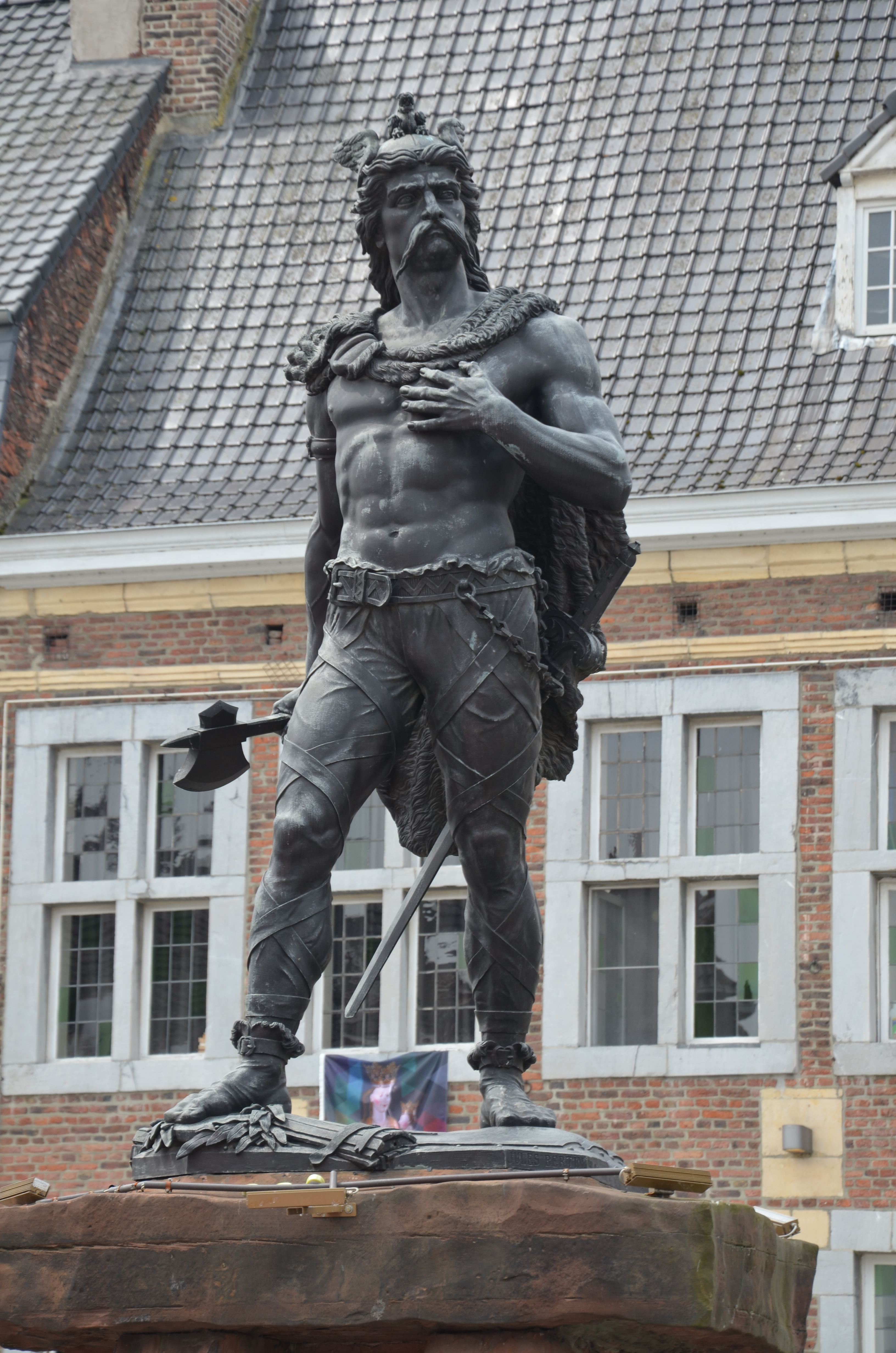 Statue (erected in 1866) of Ambiorix, leader/king of the Eburones, in Tongeren, Belgium.